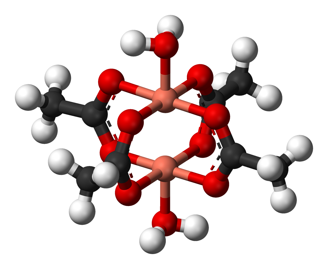 Structure of copper(II) acetate dihydrate. Atoms: Cu - pink, O - red, C - black, H - white. Lawrence Que (March 2000) Physical methods in bioinorganic chemistry: spectroscopy and magnetism, University Science Books, pp. 345–348 Retrieved on 22 February 2011. ISBN: 9781891389023.